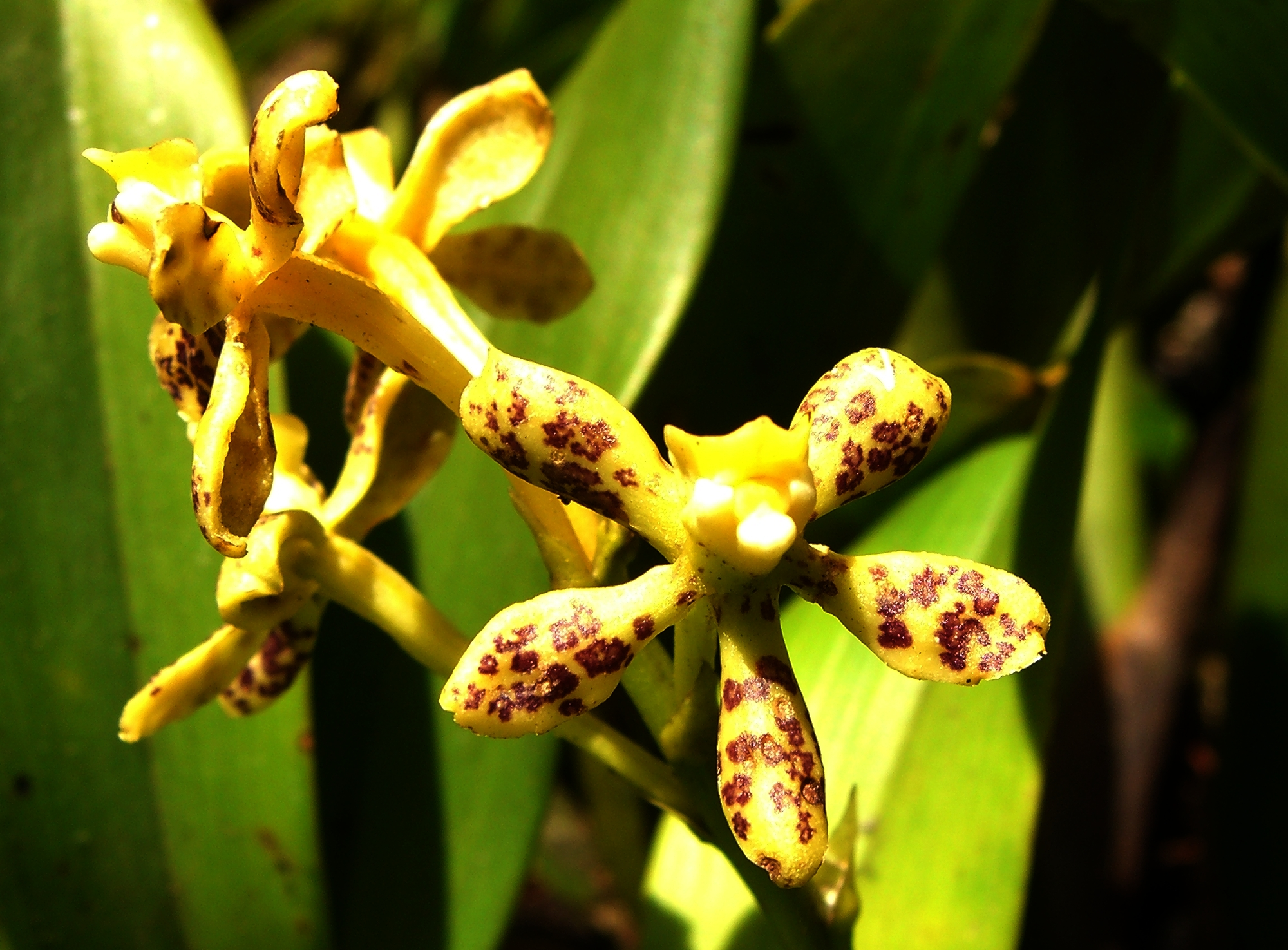 Please report references to .